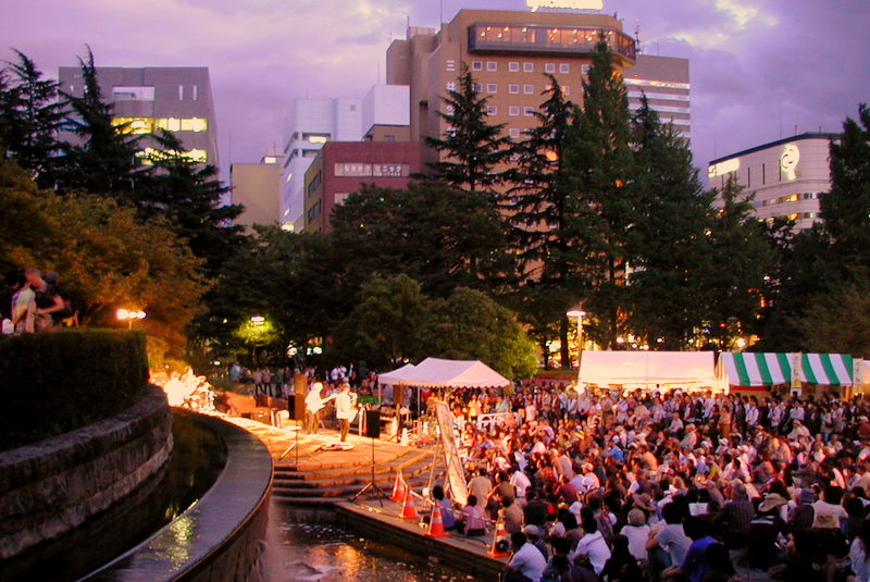 "Jozenji Streetjazz Festival in SENDAI". Kotodai-Koen Park